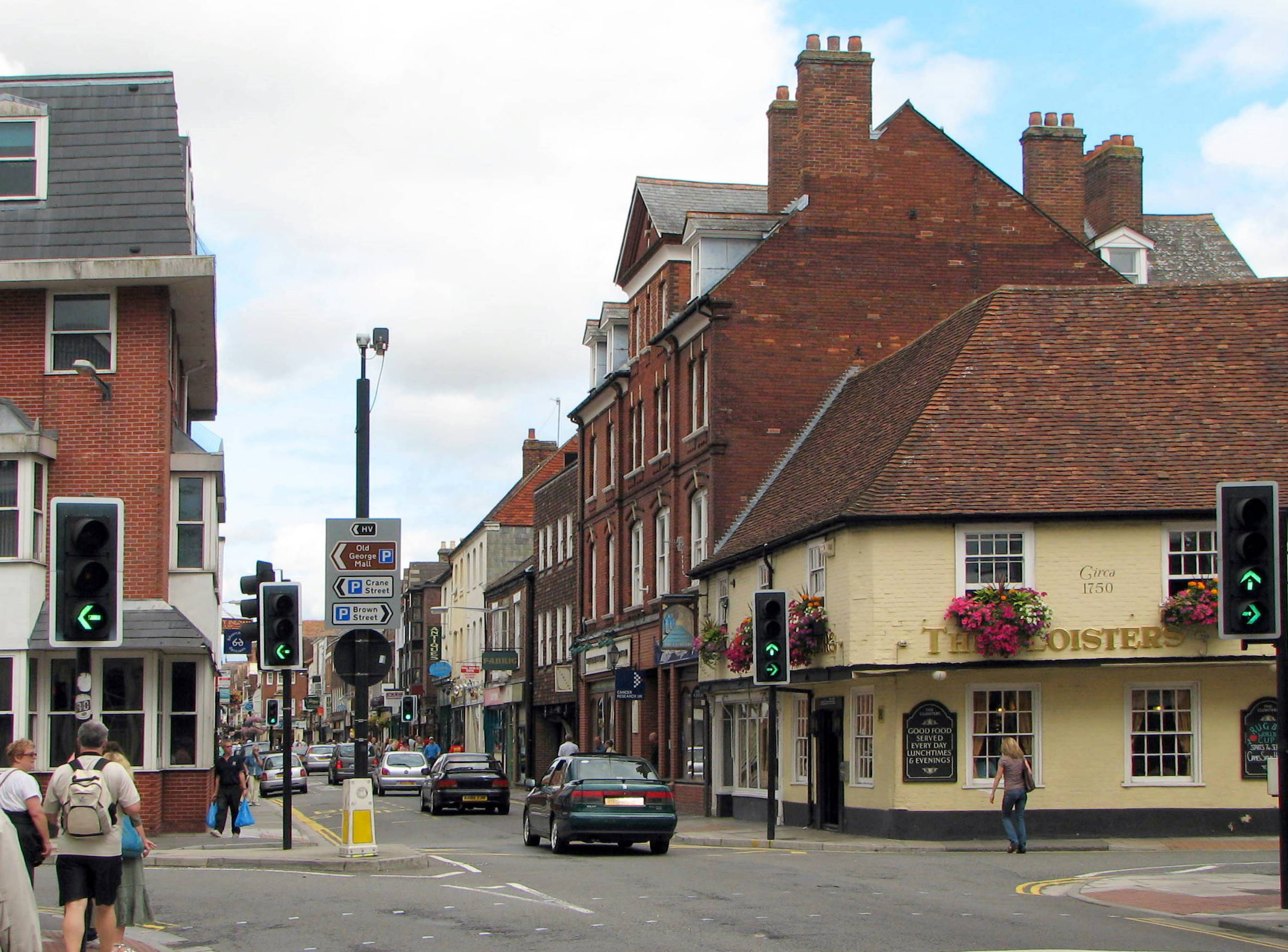 Salisbury street, Wiltshire, England